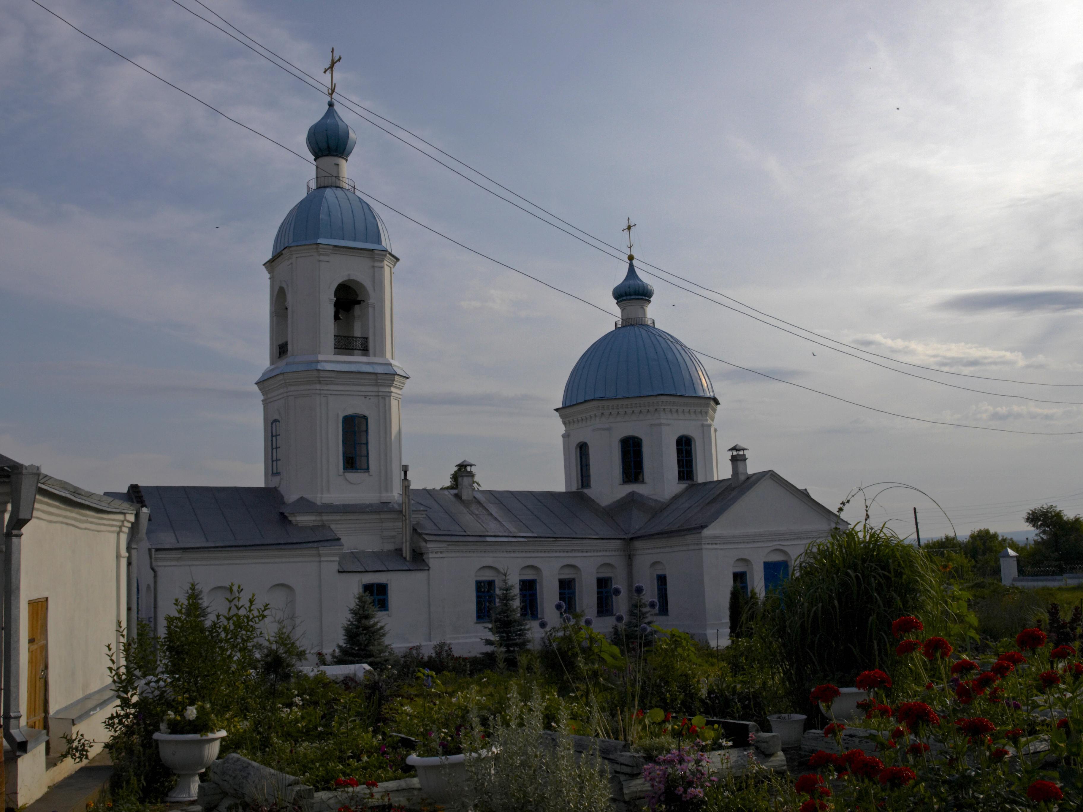 The Church of the Nativity of the Theotokos, Alatyr